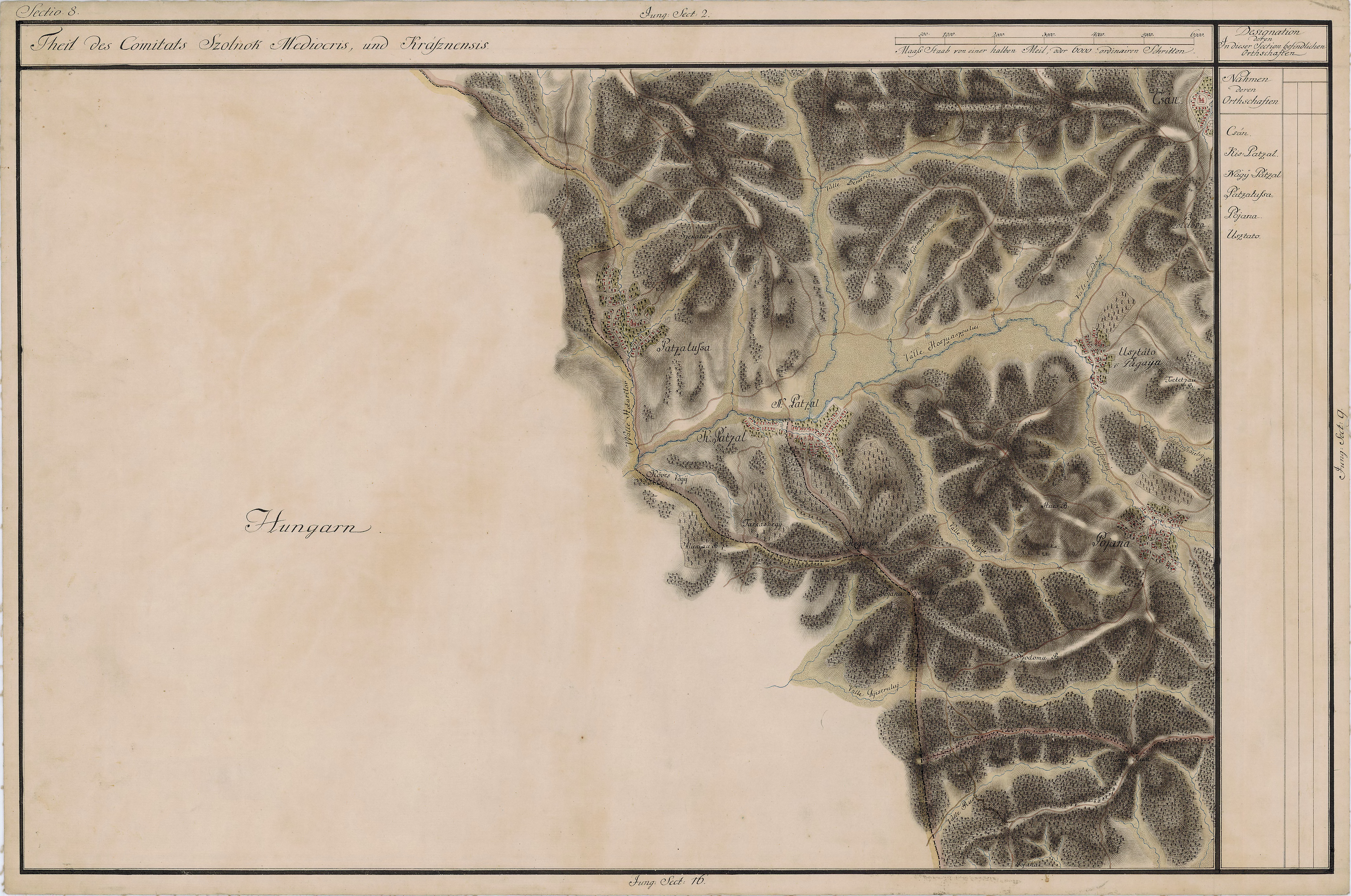 Grand Duchy of Transylvania, 1769-1773. Josephinische Landaufnahme pg.008